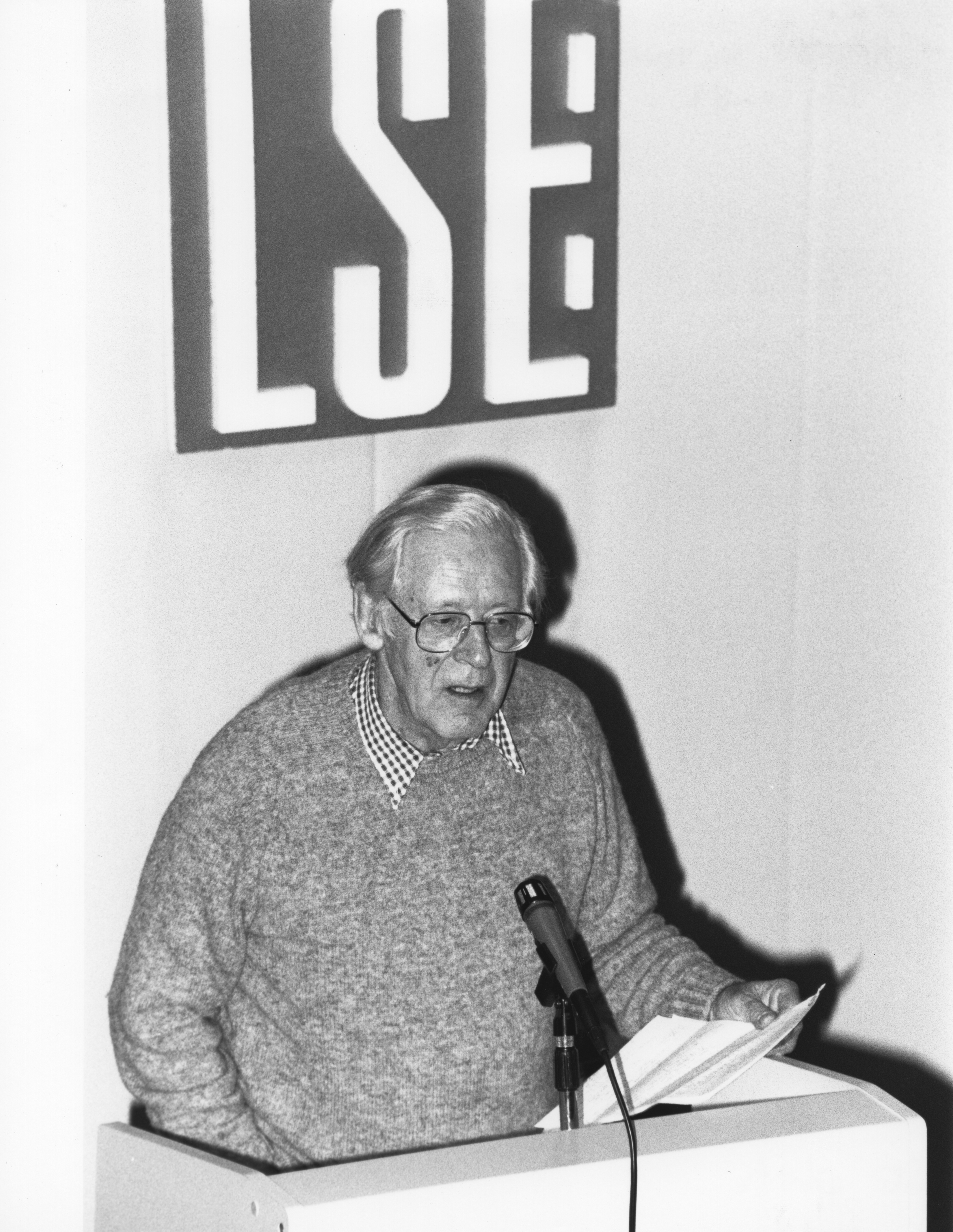 26th October 1989, Rodney Hilton Emeritus Prof. of Medieval Social History University of Birmingham. LSE/ William Morris Society Lecture: 'The Change Beyond the Change' IMAGELIBRARY/95 Persistent URL